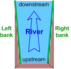 Diagram for definition of the river bank's sides